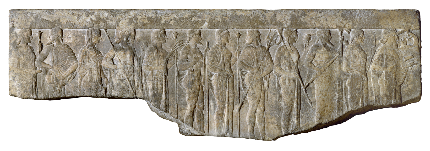 The figures from left to right are: Hestia (goddess of the hearth), with scepter; Hermes (messenger of the gods), with cap and staff; Aphrodite (goddess of love and beauty), with veil; Ares (god of war), with helmet and spear; Demeter (goddess of agriculture), with scepter and wheat sheaf; Hephaestus (god of fire and metal-working), with staff; Hera (queen of the gods), with scepter; Poseidon (god of the sea), with trident; Athena (goddess of wisdom and the arts), with owl and helmet; Zeus (king of the gods), with thunderbolt and staff; Artemis (goddess of the hunt and moon), with bow and quiver; and Apollo (god of the sun), with "kithara."